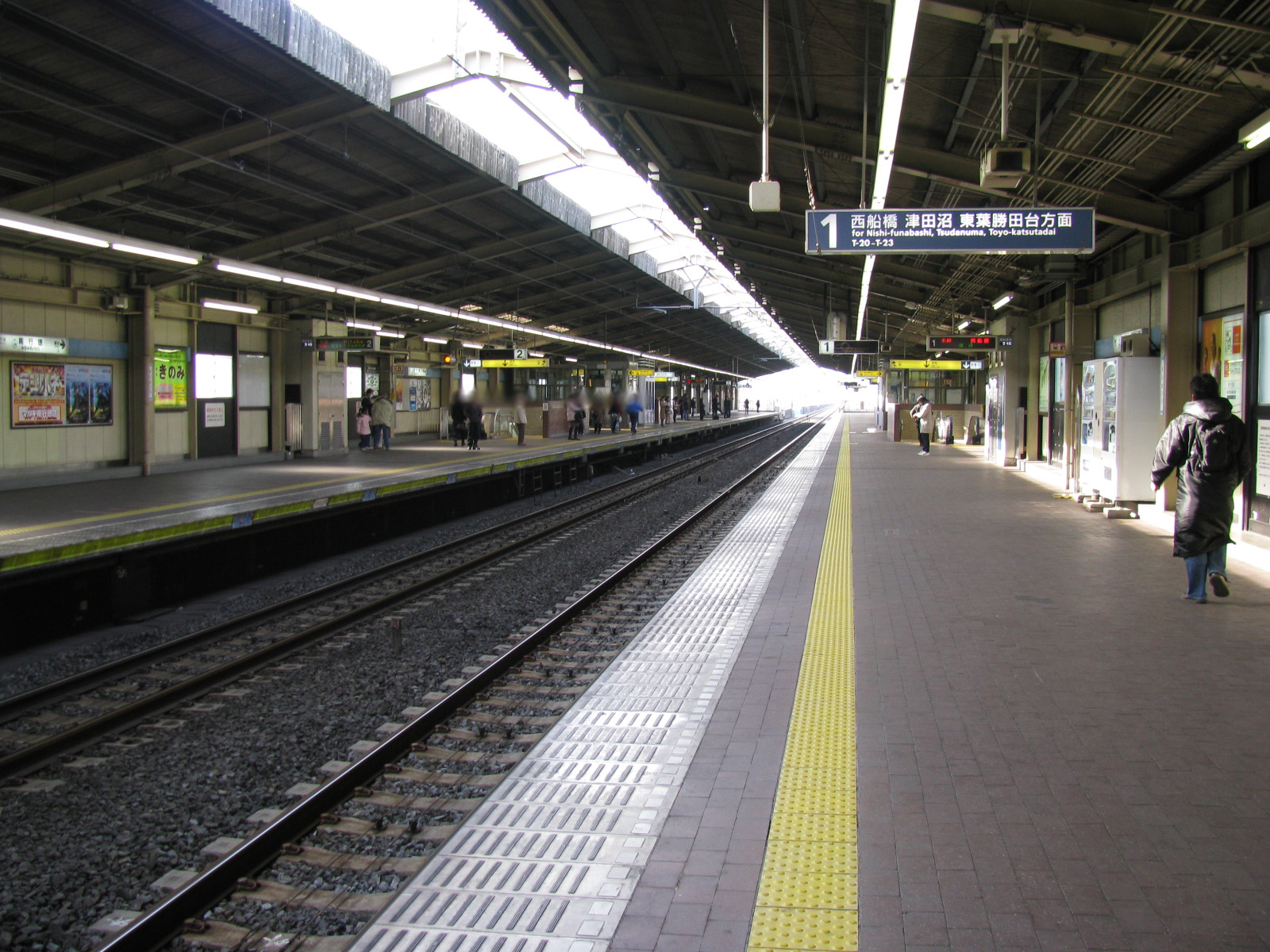 Platform of Minami-gyotoku Station on Tokyo Metro Tozai-Line